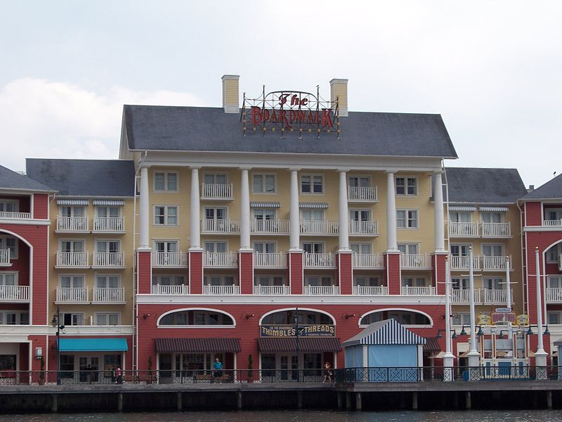 Disney's Boardwalk Inn at Disney World.